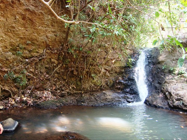 Author--My 15-year old daughter, Fay Margarett O. Fadul